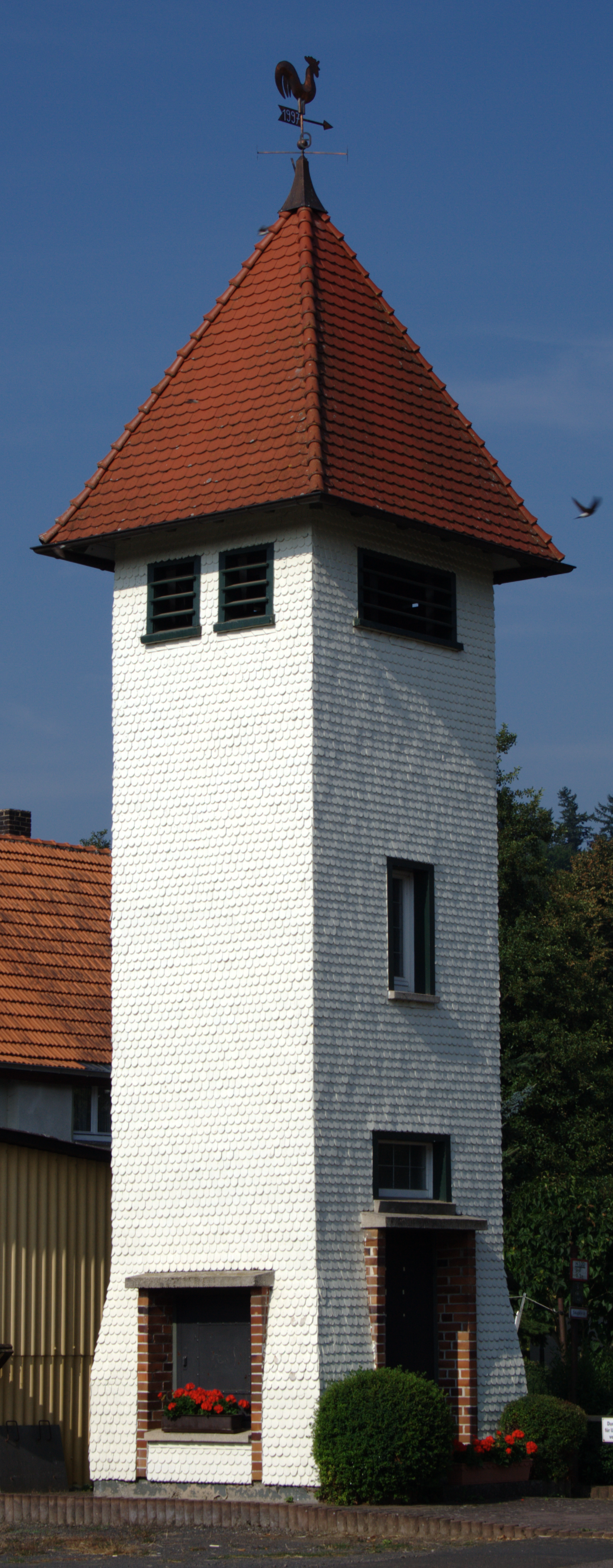 Small Tower in Liederbach Germany Hesse Alsfeld